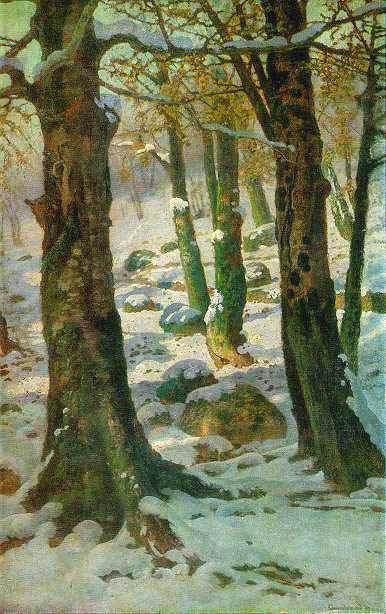 In the Snow Covered Woods